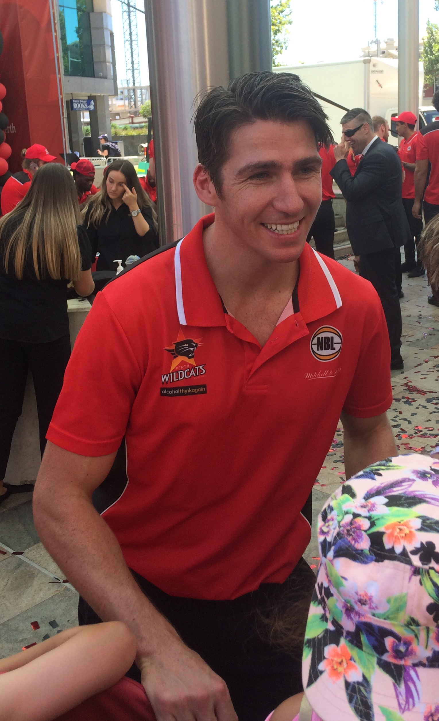 Damian Martin at the Perth Wildcats' 2017 championship celebration